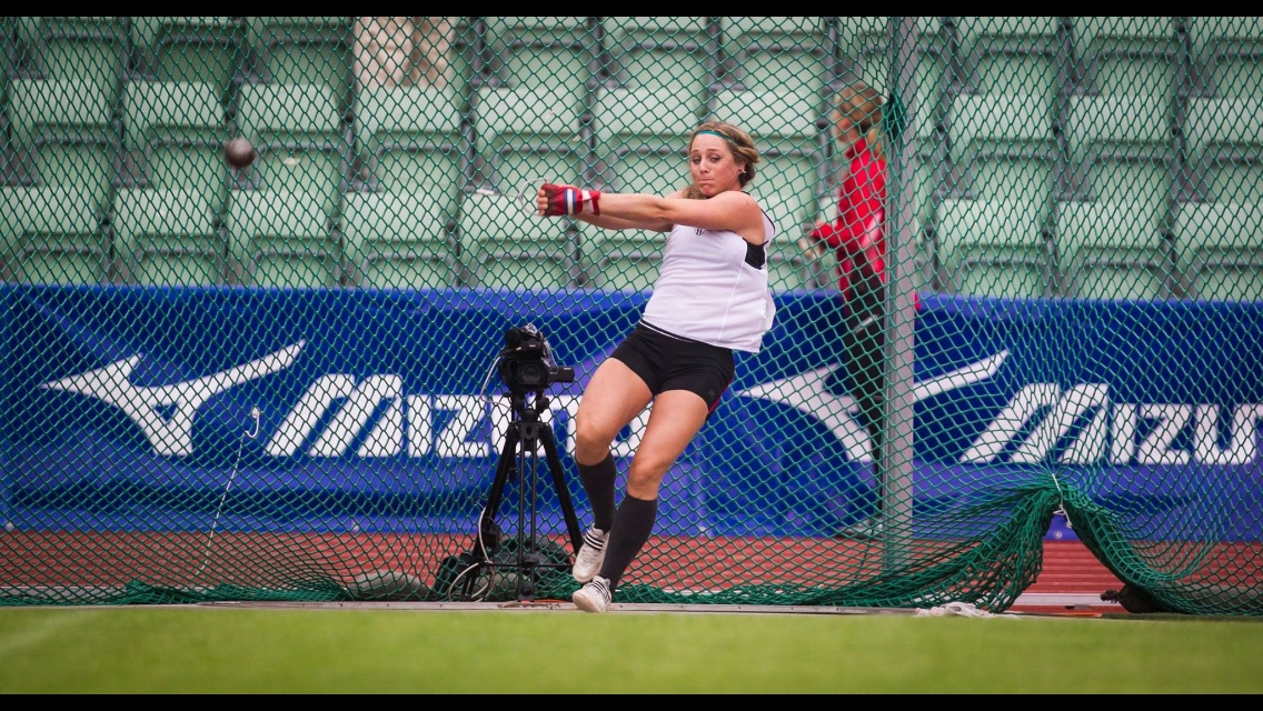 mona holm solberg hammer throw